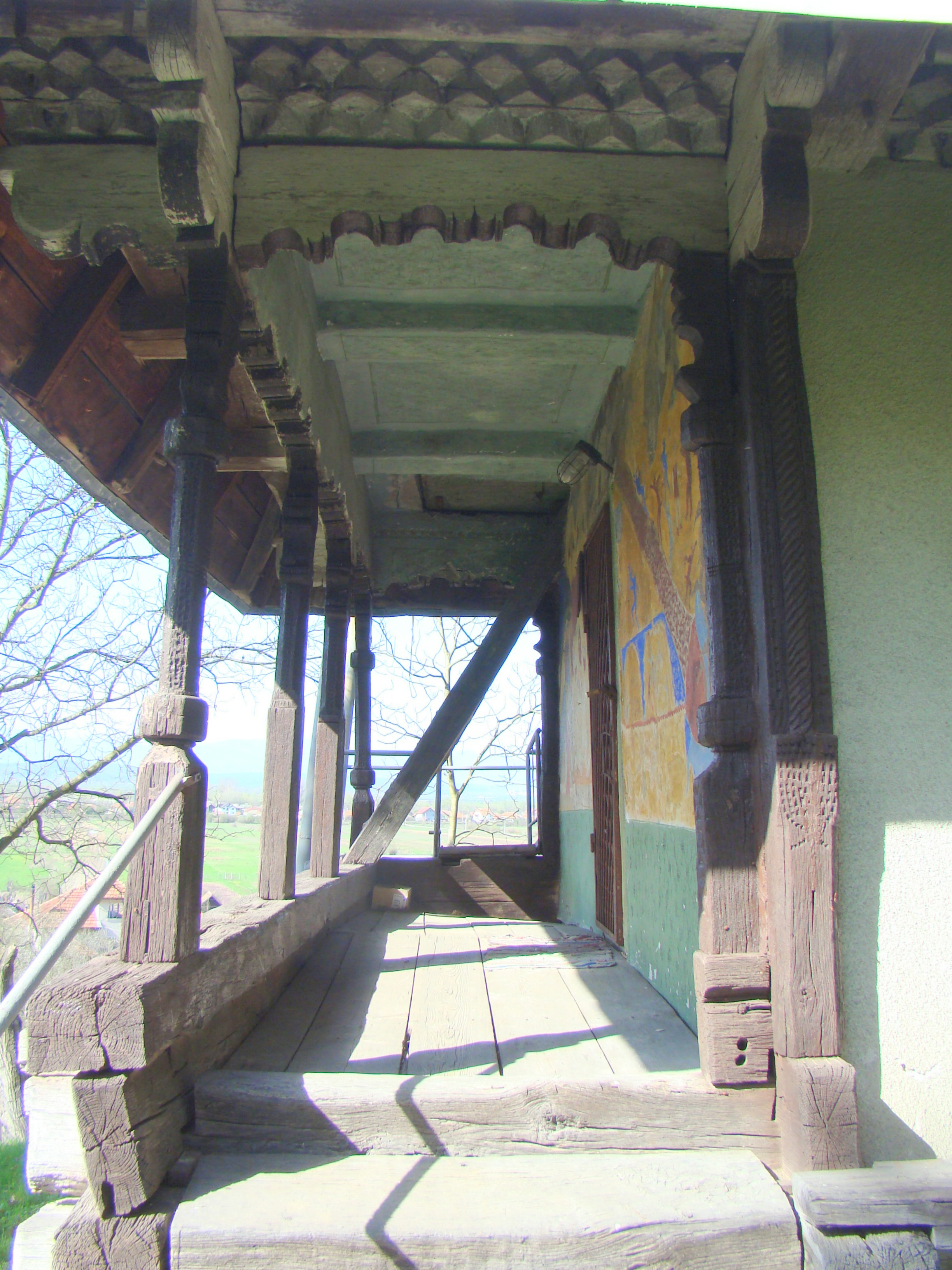 Wooden church in Cârbești, Gorj county, Romania